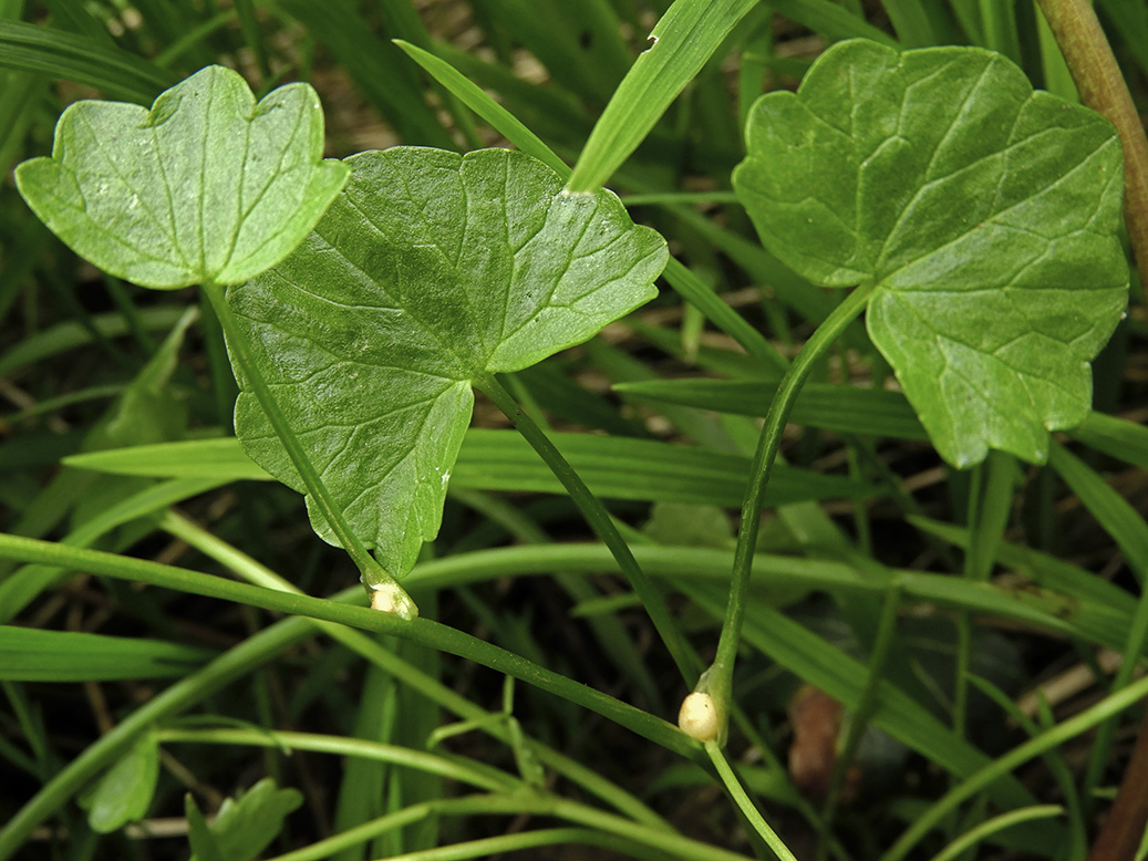 Bulbils are known to form in the leaf axils of two subspecies of lesser celandine,Ficaria verna ssp. verna (syn. F. verna ssp. bulbilifer) and F. verna ssp. ficariiformis, which are differentiated primarily by their size; as this can be greatly affected by the conditions under which they are growing it can be difficult to identify a single specimen with any certainty. As subspecies ficariiformis is primarily a plant of the central and western Mediterranean regions and this plant was photographed in woodland in Lincolnshire, UK, this is most probably Ficaria verna ssp. verna. (NB This plant was growing in deep shade, among Arum maculatum, and has been picked and moved to a lighter position for photography)